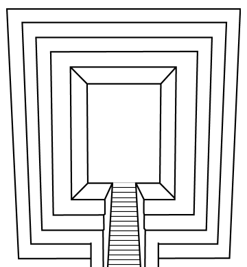 Rough top view of Mawangdui Tomb 1 (马王堆汉墓 一号墓)